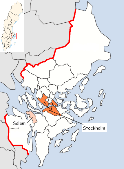 Salem Municipality in Stockholm County Designed by me. Mere outlines are a PD source from